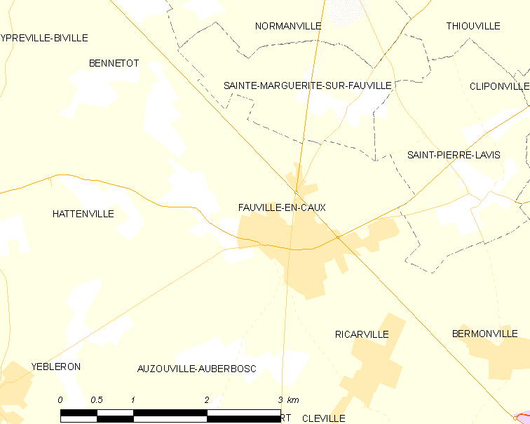 Map of French municipality Fauville-en-Caux